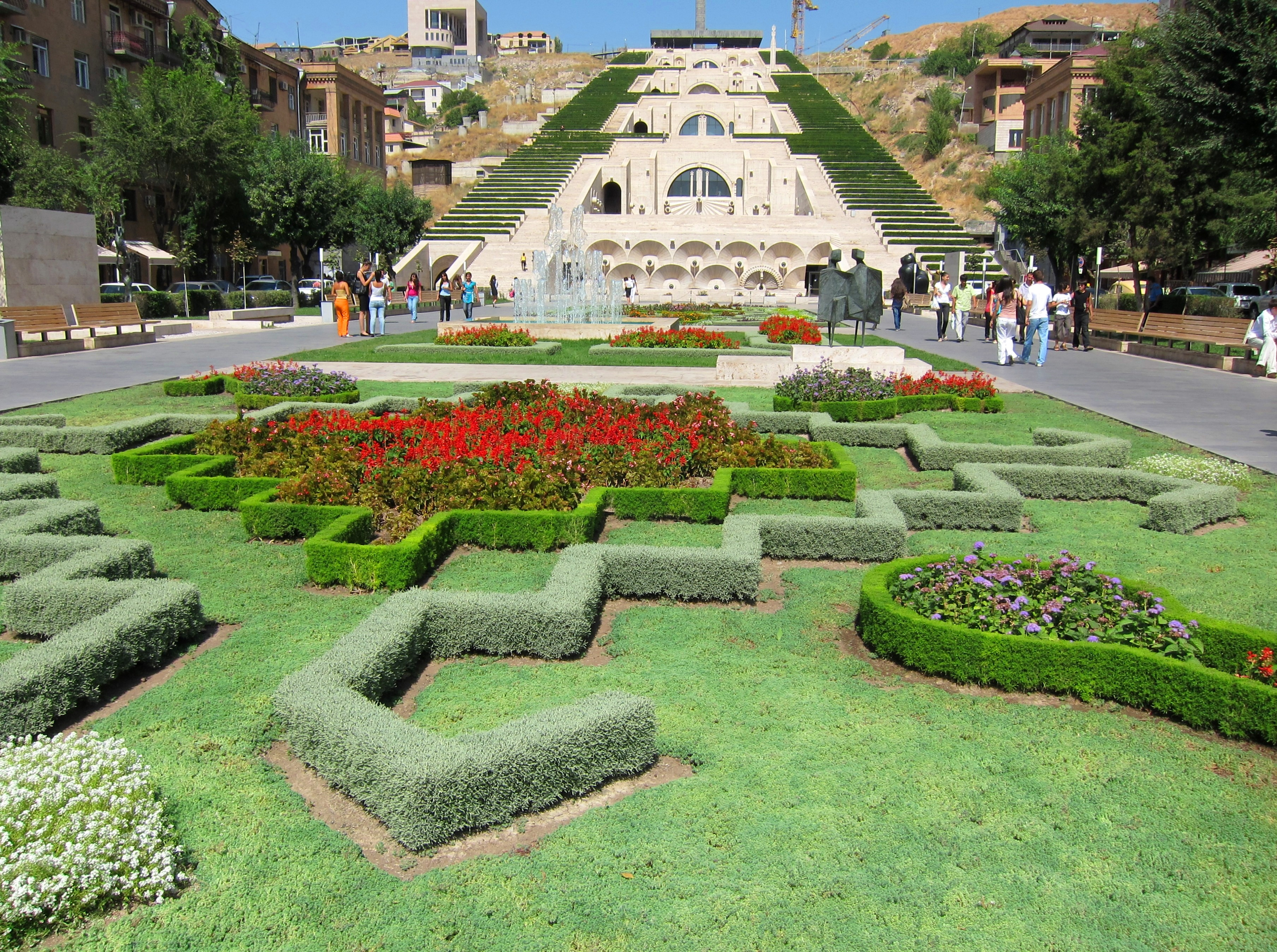 Yerevan, Cafesjian museum and the cascade